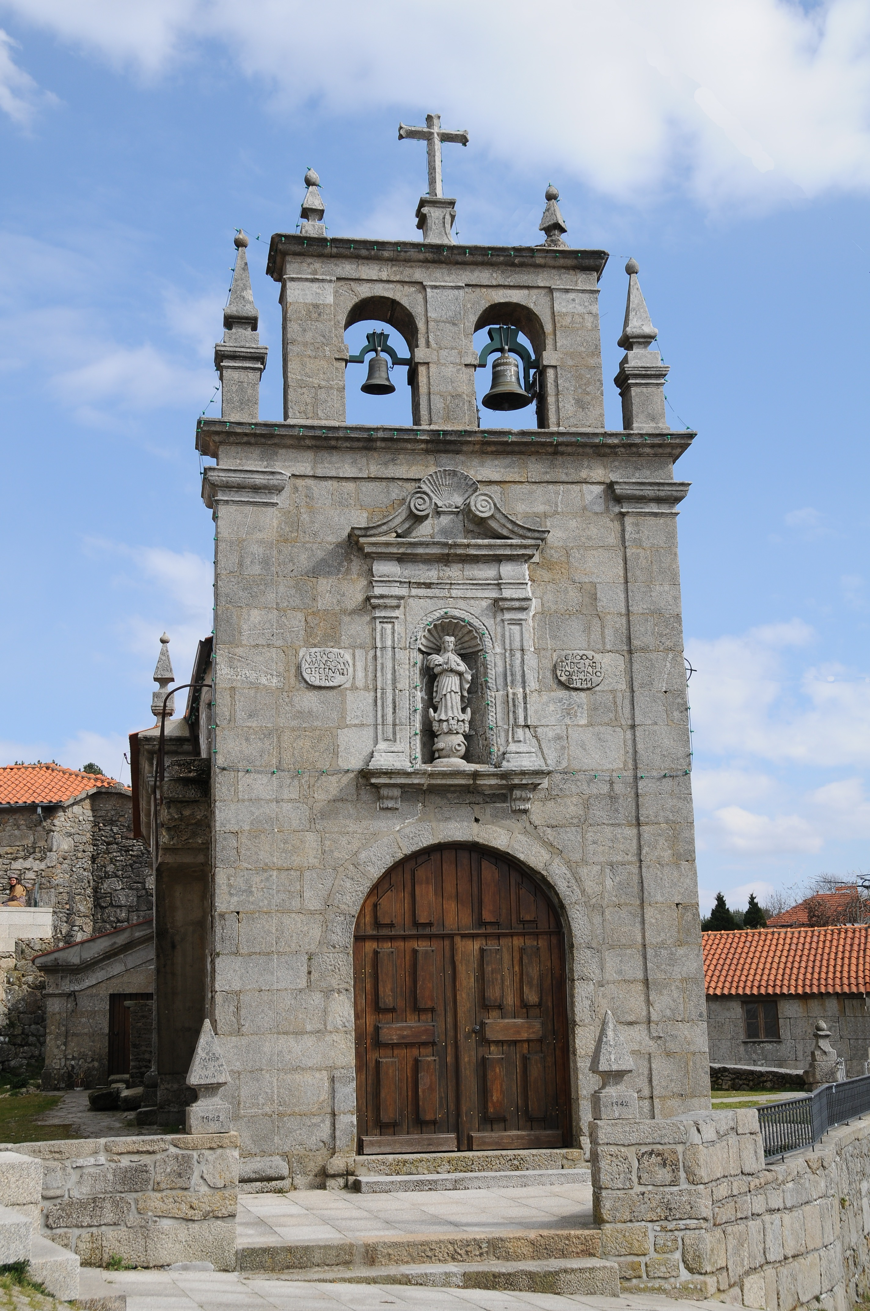 Church of Campos, Vieira do Minho, Portugal.